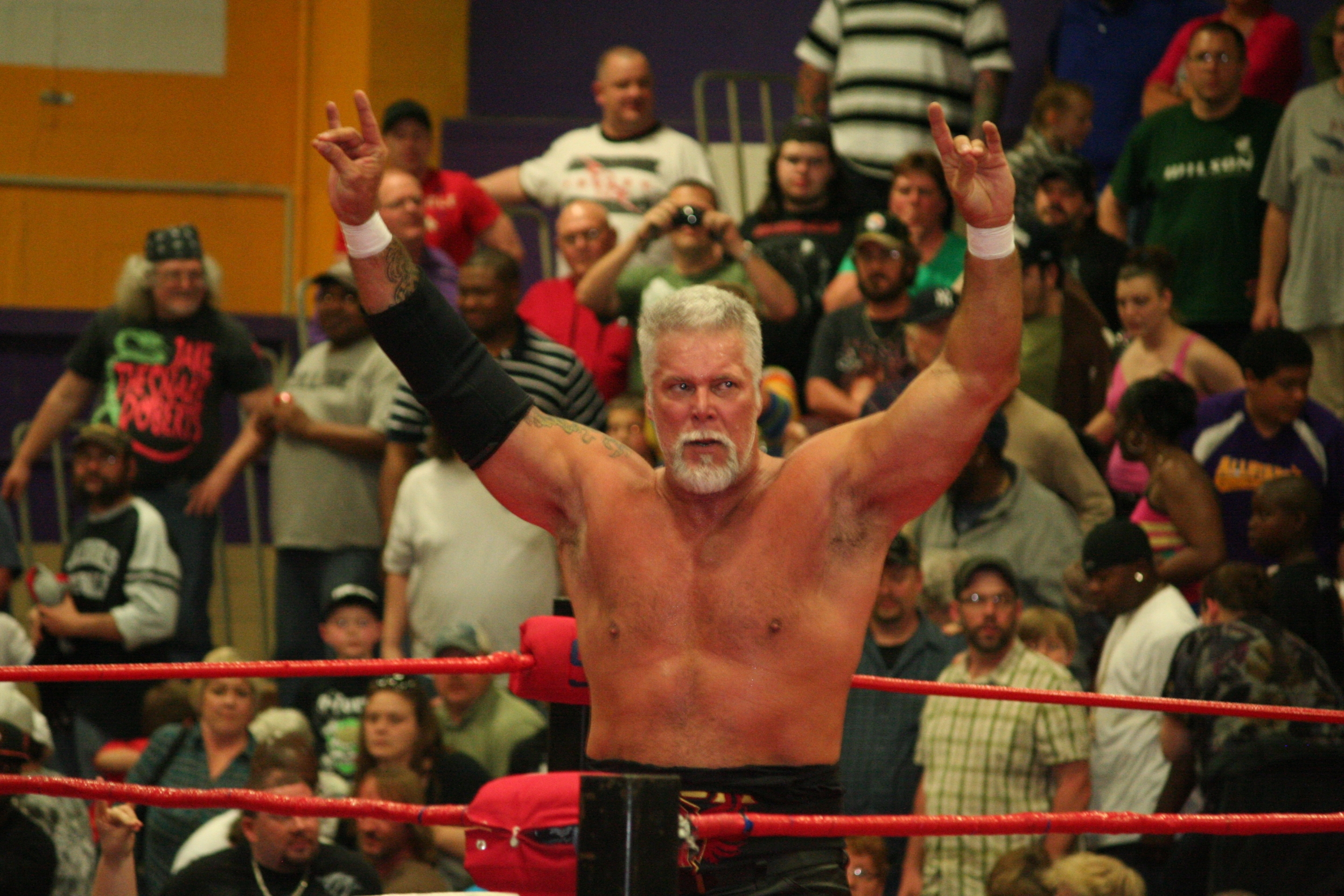 wrestler Kevin Nash